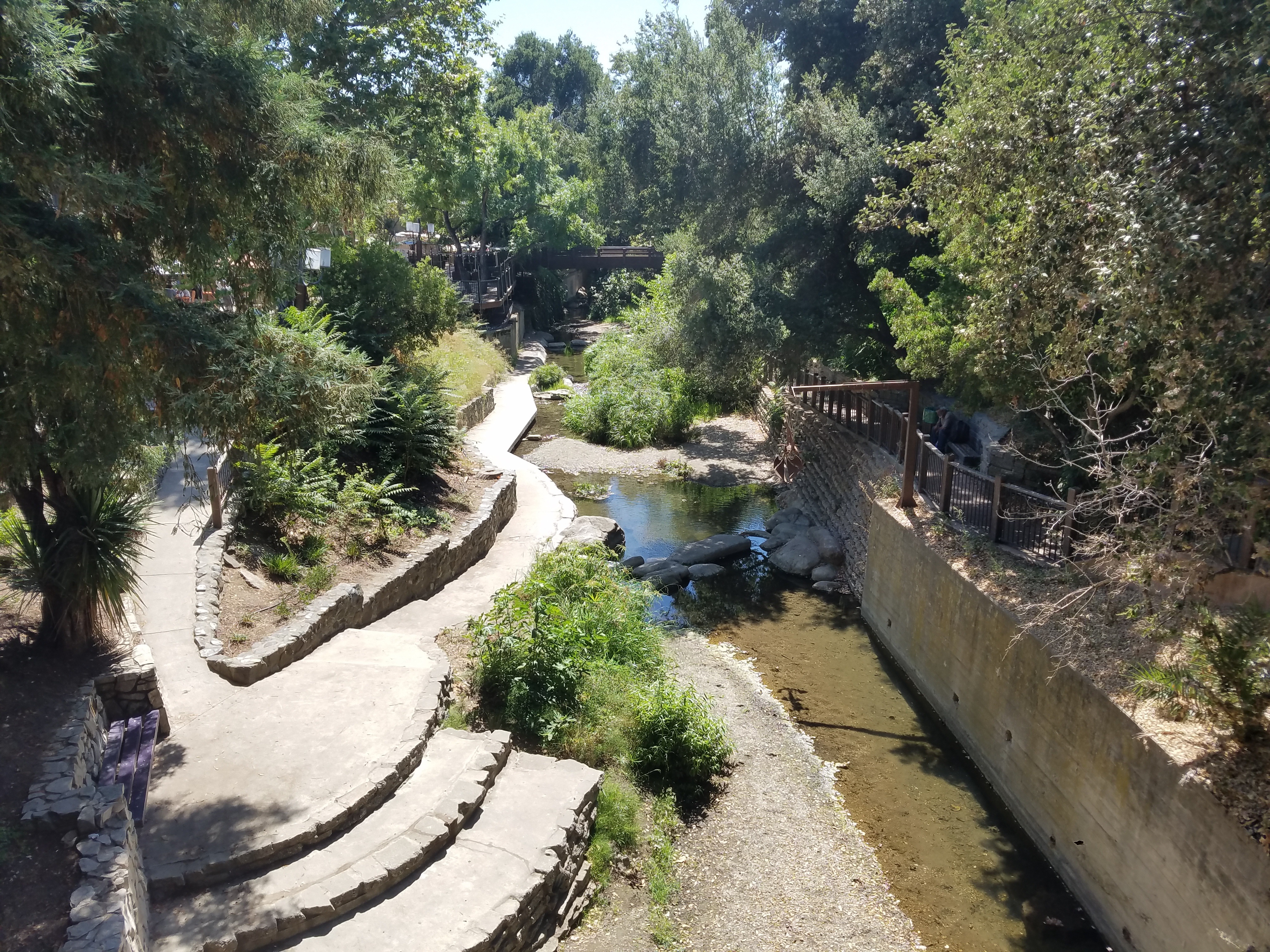 San Luis Obispo Creek, looking downstream at the Mission Plaza in downtown San Luis Obispo, California, USA.